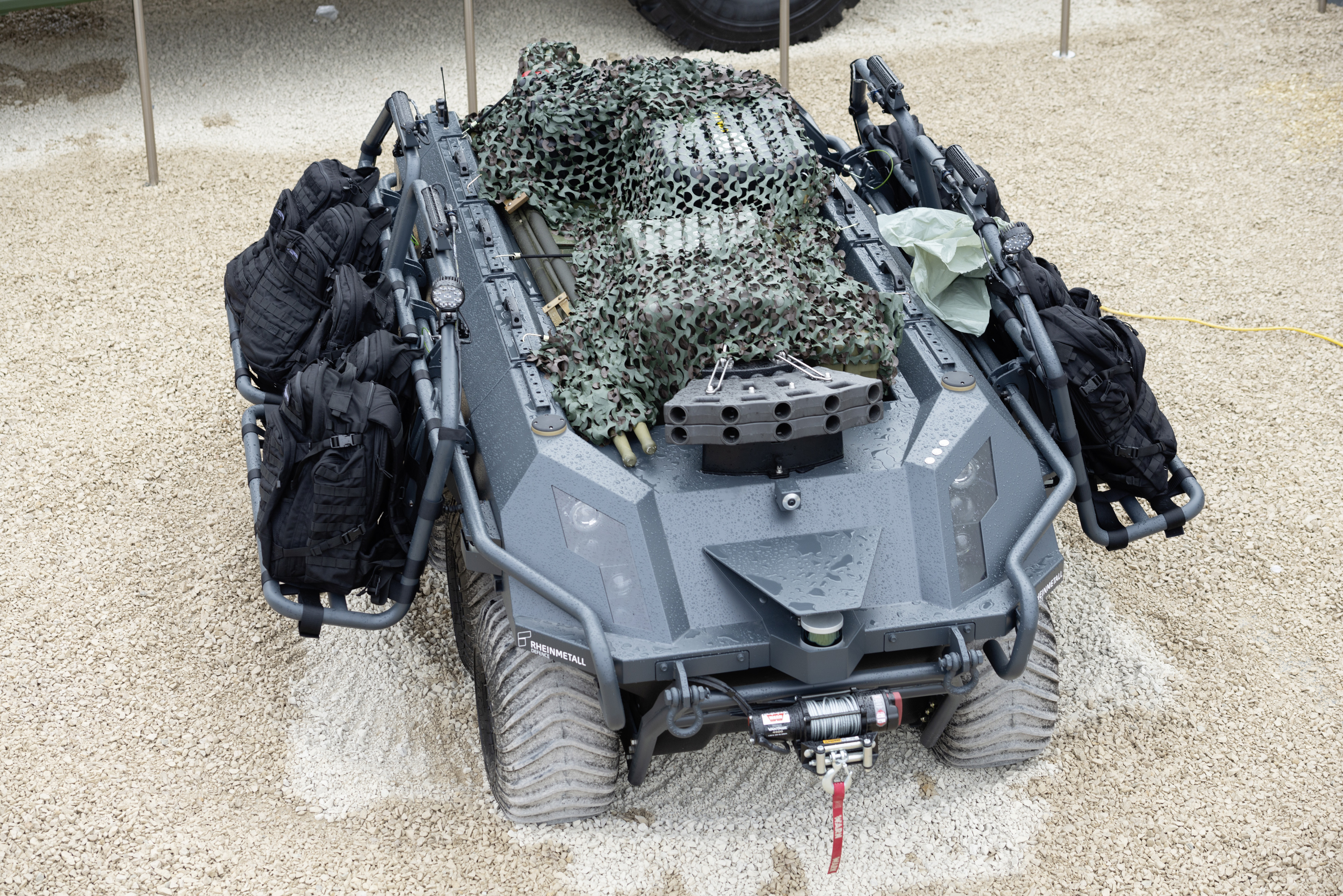 Rheinmetall Canada unveiled the Mission Master UGV at Eurosatory 2018.